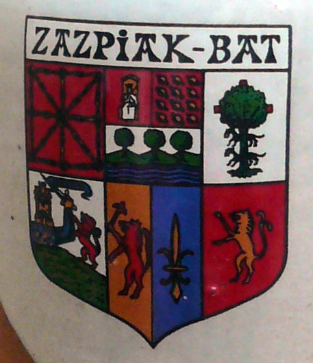 Zazpiak Bat